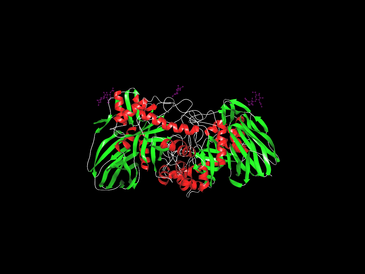 3D structure of miglustat-enzyme complex, created in MarvinSpace